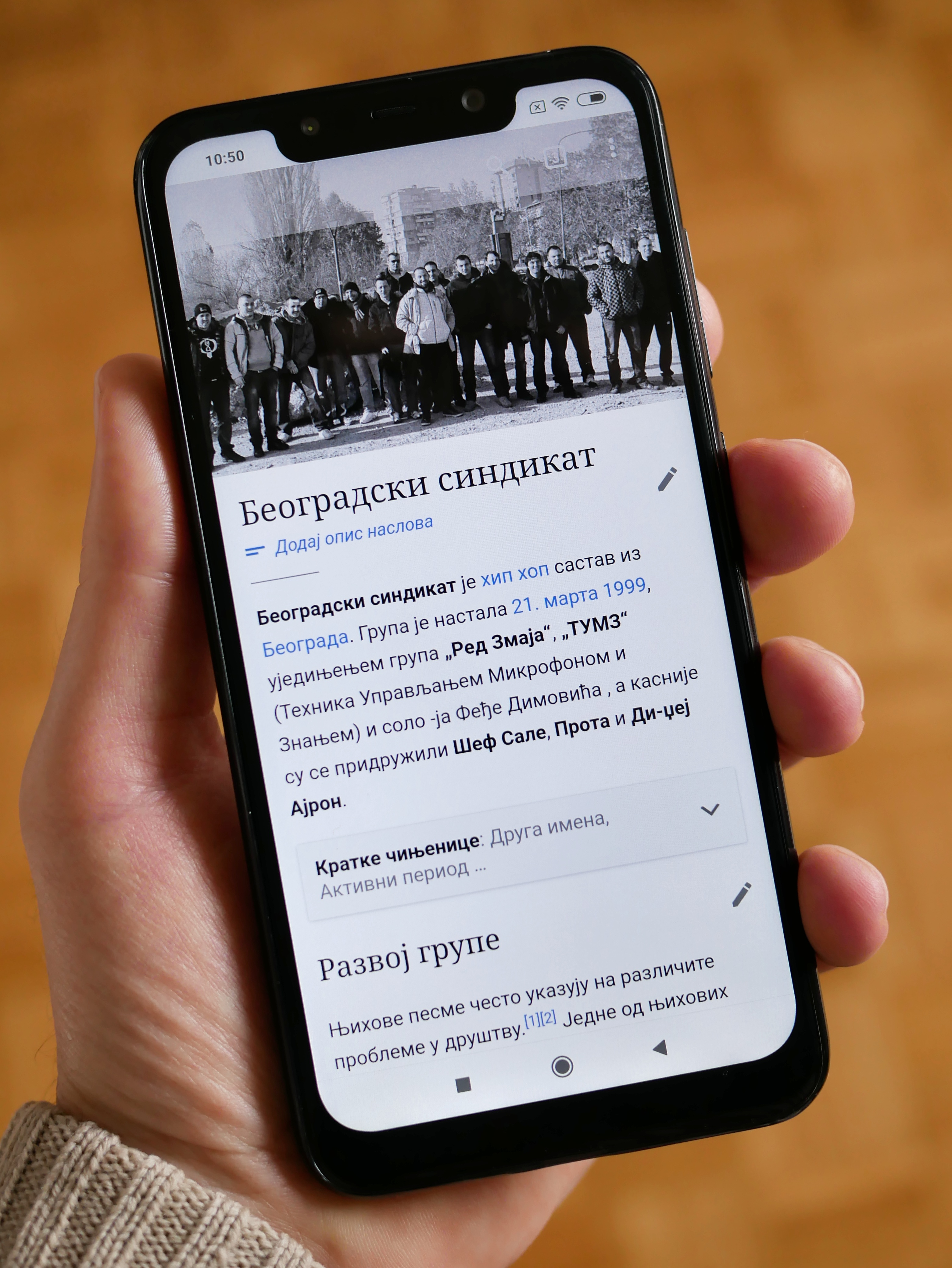 Xiaomi Pocophone F1. Image on Xiaomi is from Beogradski Sindikat band on Wikipedia in Serbian language (under CC BY-SA license). This photograph was taken with a Panasonic Lumix DMC-G85/G80